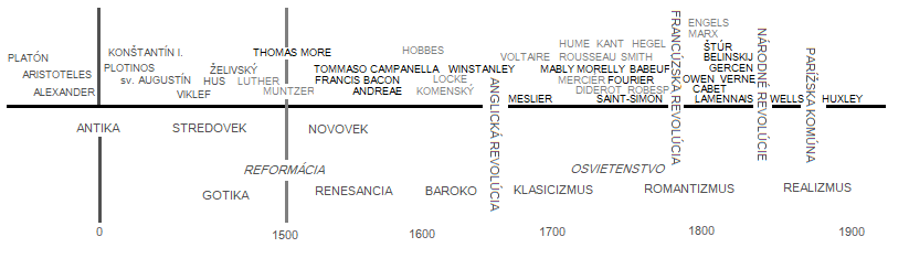 Timeline of history of utopia